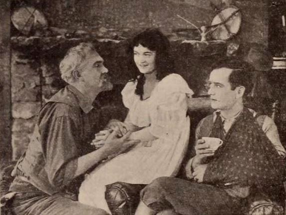 Still from the American western film 49-'17 (1917) with Joseph W. Girard, Donna Drew, and Leo Pierson, on page 29 of the October 20, 1917 Exhibitors Herald.